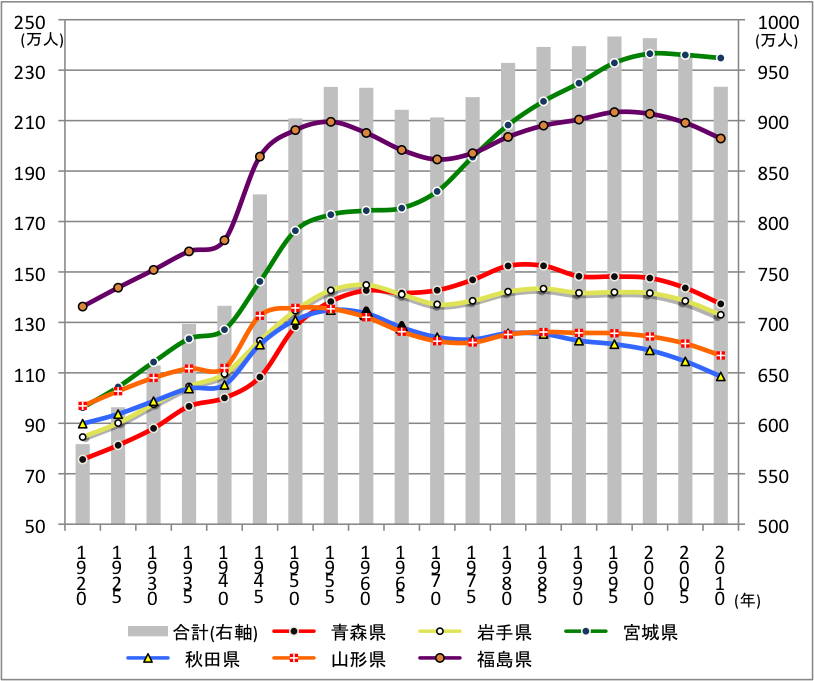 Changes in populations Tohoku Japan 1920-2010